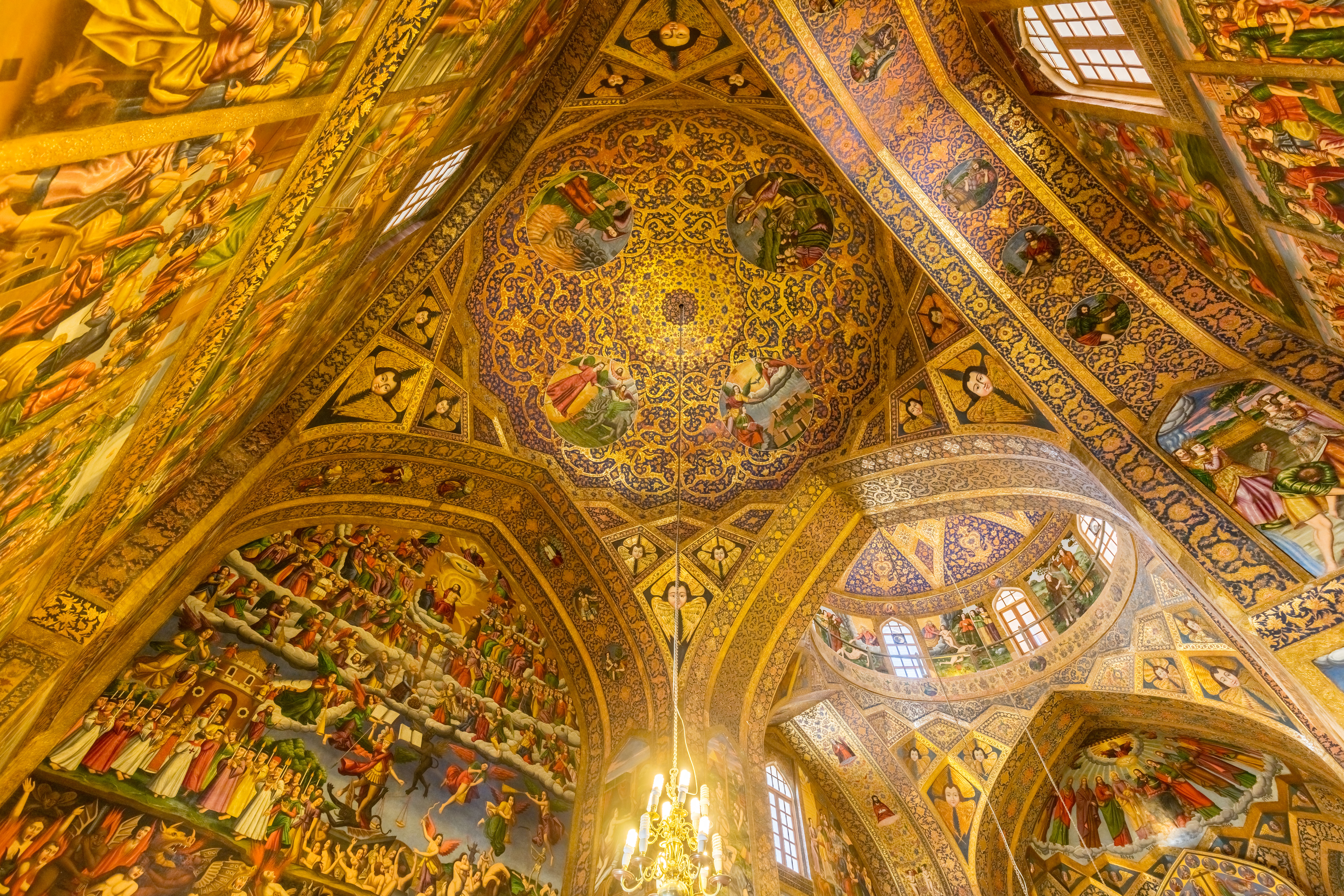 Vank Cathedral, Isfahan, Iran